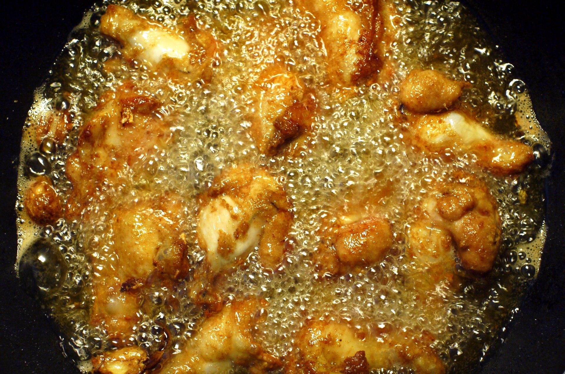 Deep-frying chicken upper wing in corn oil